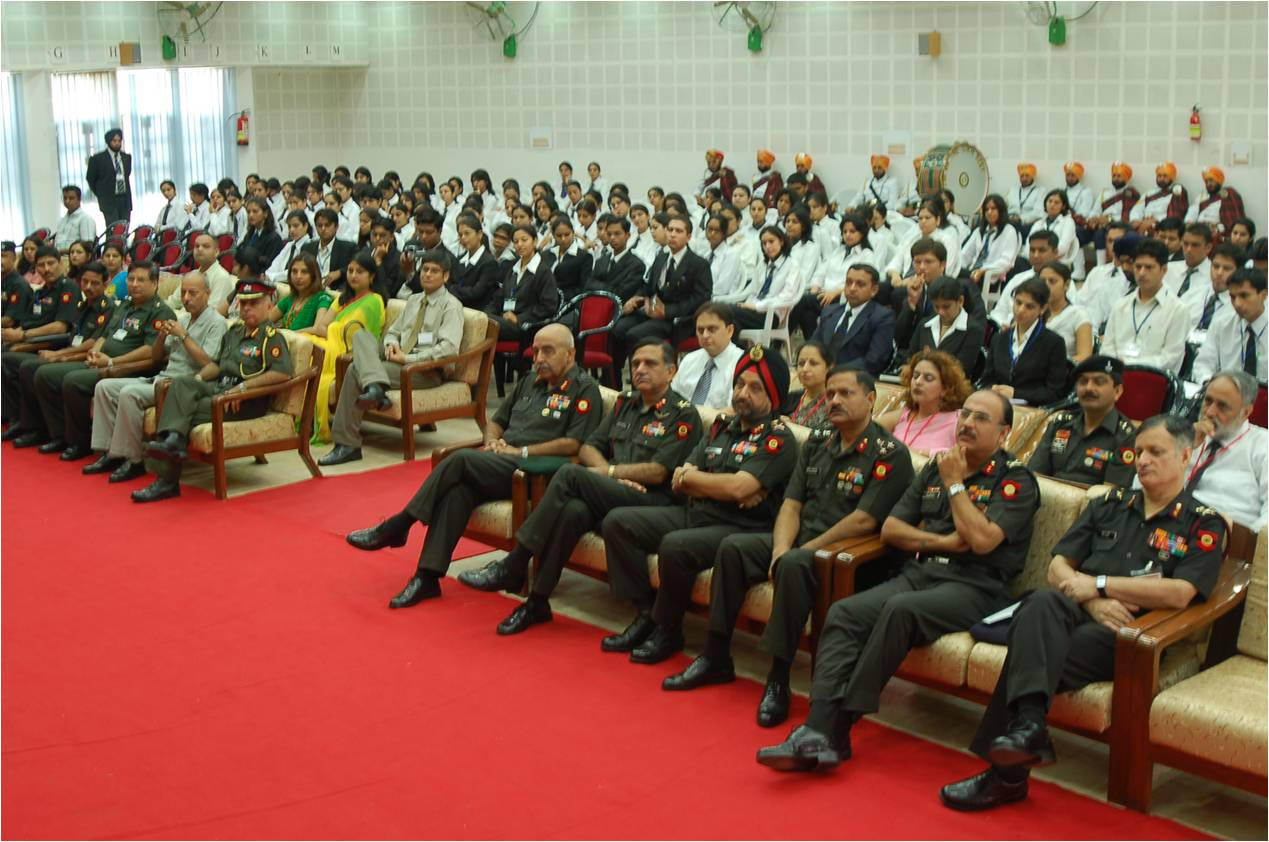 Surana & Surana Corporate Moot 2008 - INAUGURAL CEREMONY, ARMY INSTITUTE OF LAW, MOHALI, PUNJAB.